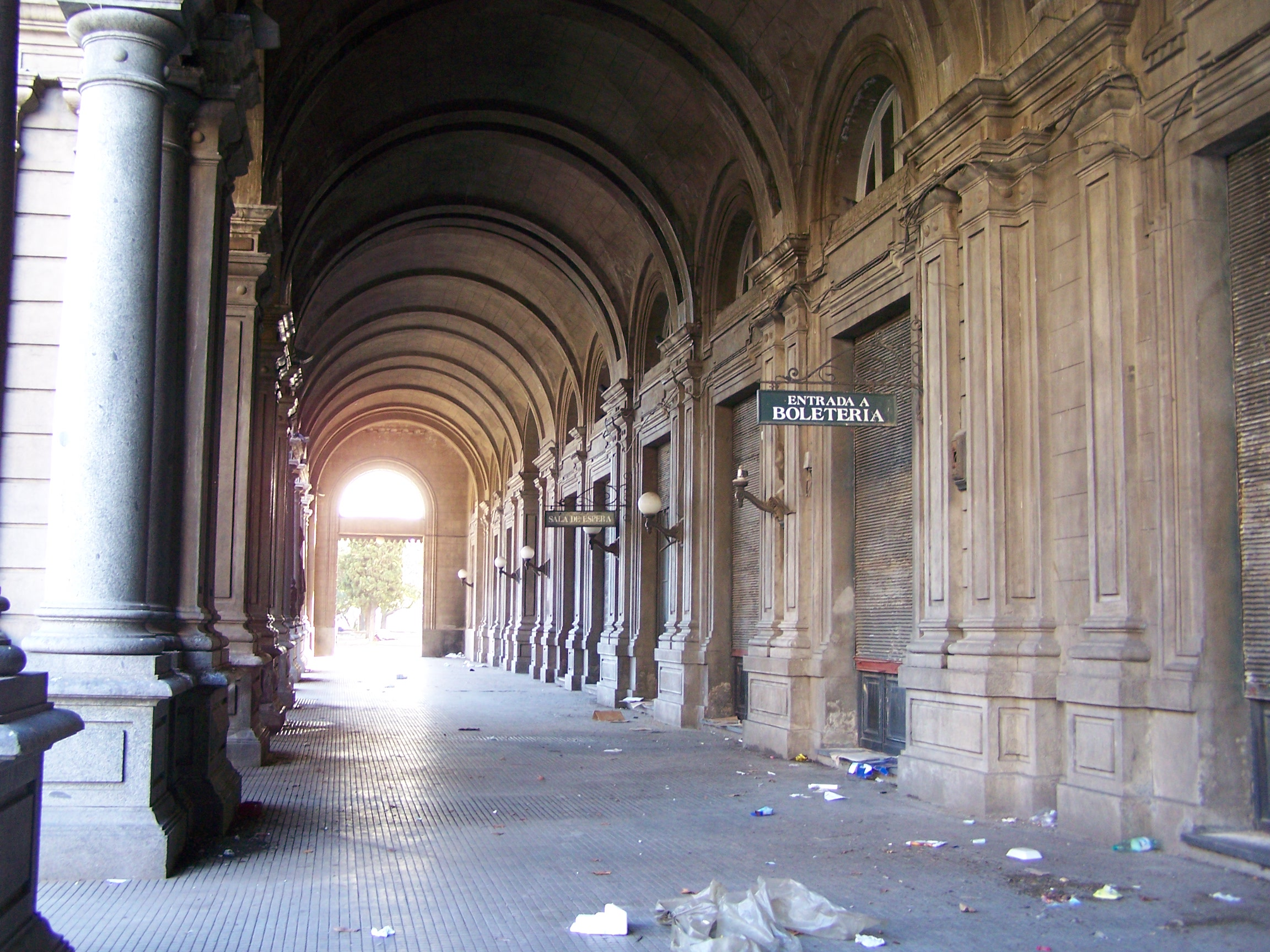 The old central station of Montevideo (Uruguay)